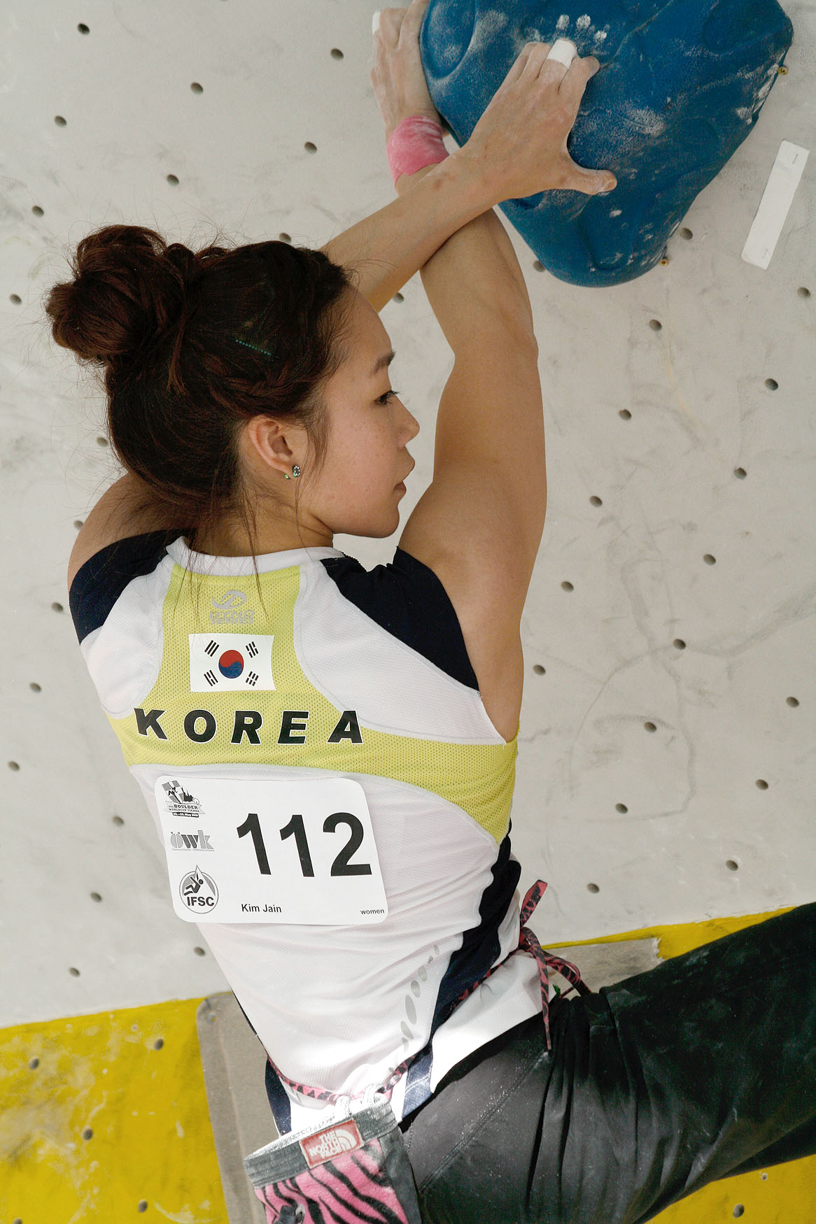 Jain Kim during qualifications at the IFSC Boulder Worldcup Vienna 2010.